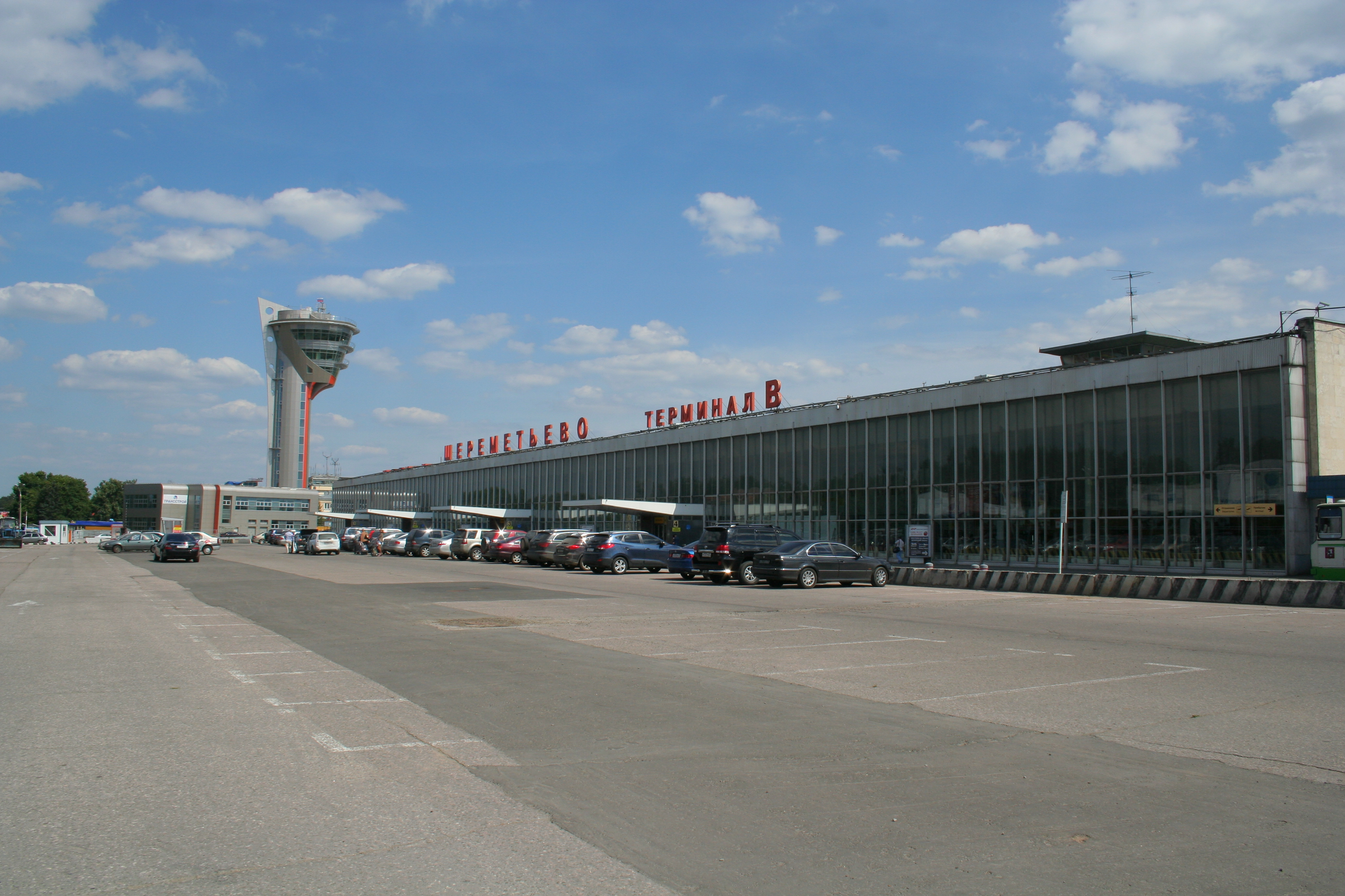 Sheremetyevo Airport of Moscow. Terminal B. View outside.